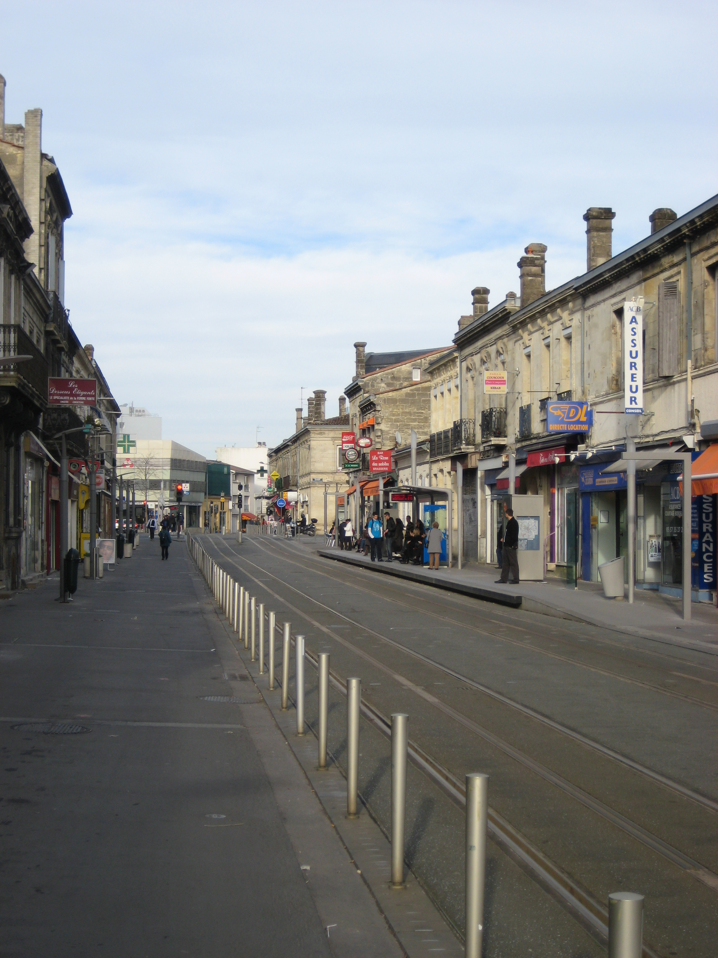 Station Barrière Saint-Genès on the Tramway de Bordeaux. The platform towards Claveau is in the foreground right while the platform towards Pessac Centre is in the background left